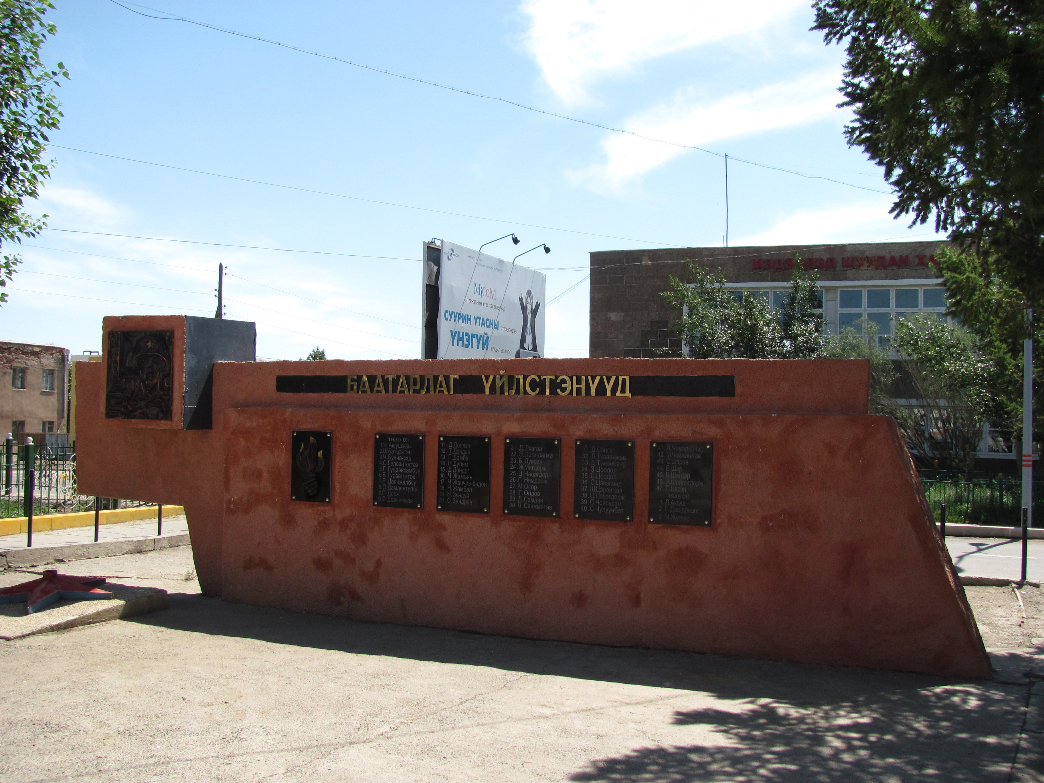 Heroes' Memorial, Arvaikheer, Mongolia.